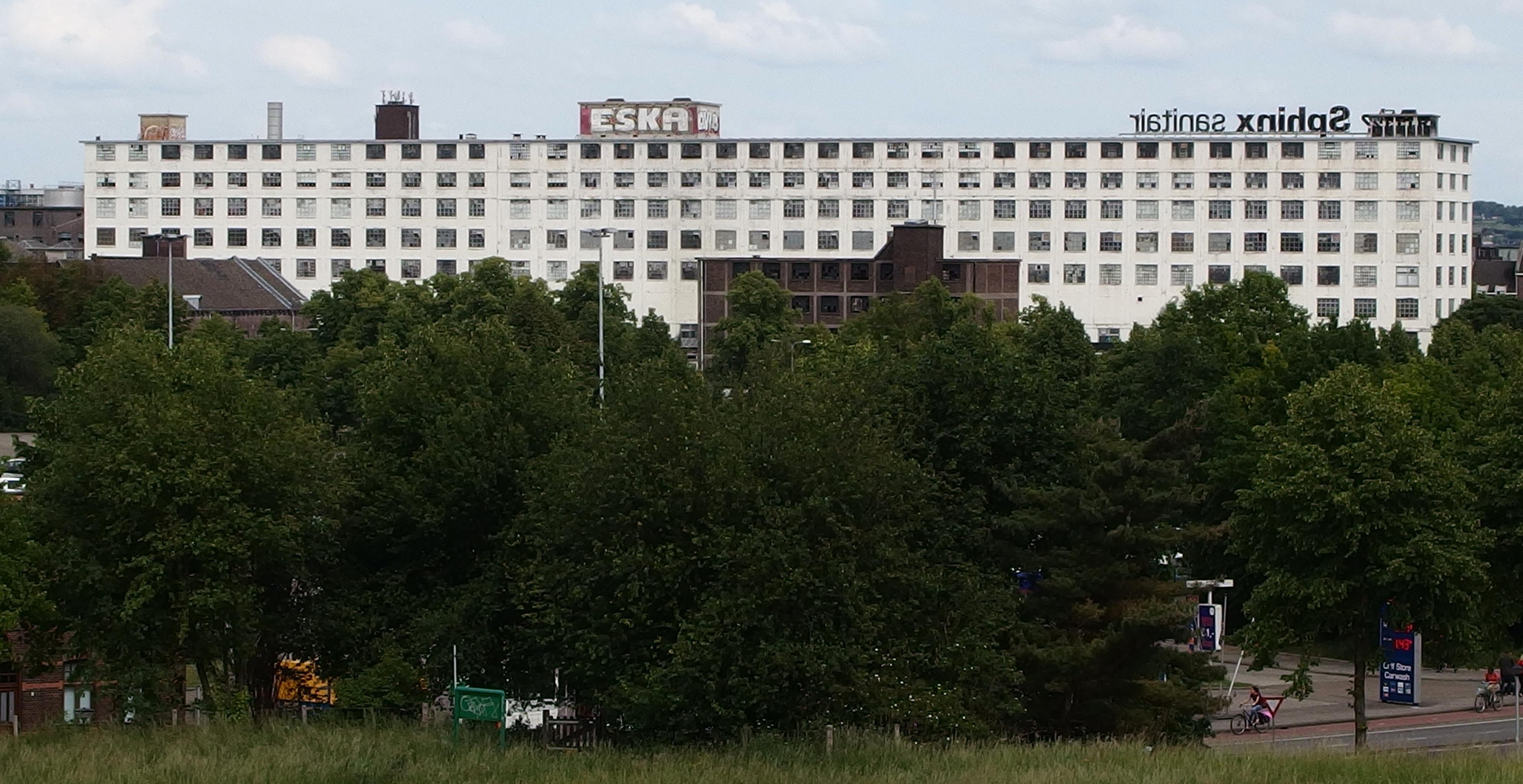 20140525 in Maastricht at Hoge Fronten (Linie van Dumoulin)